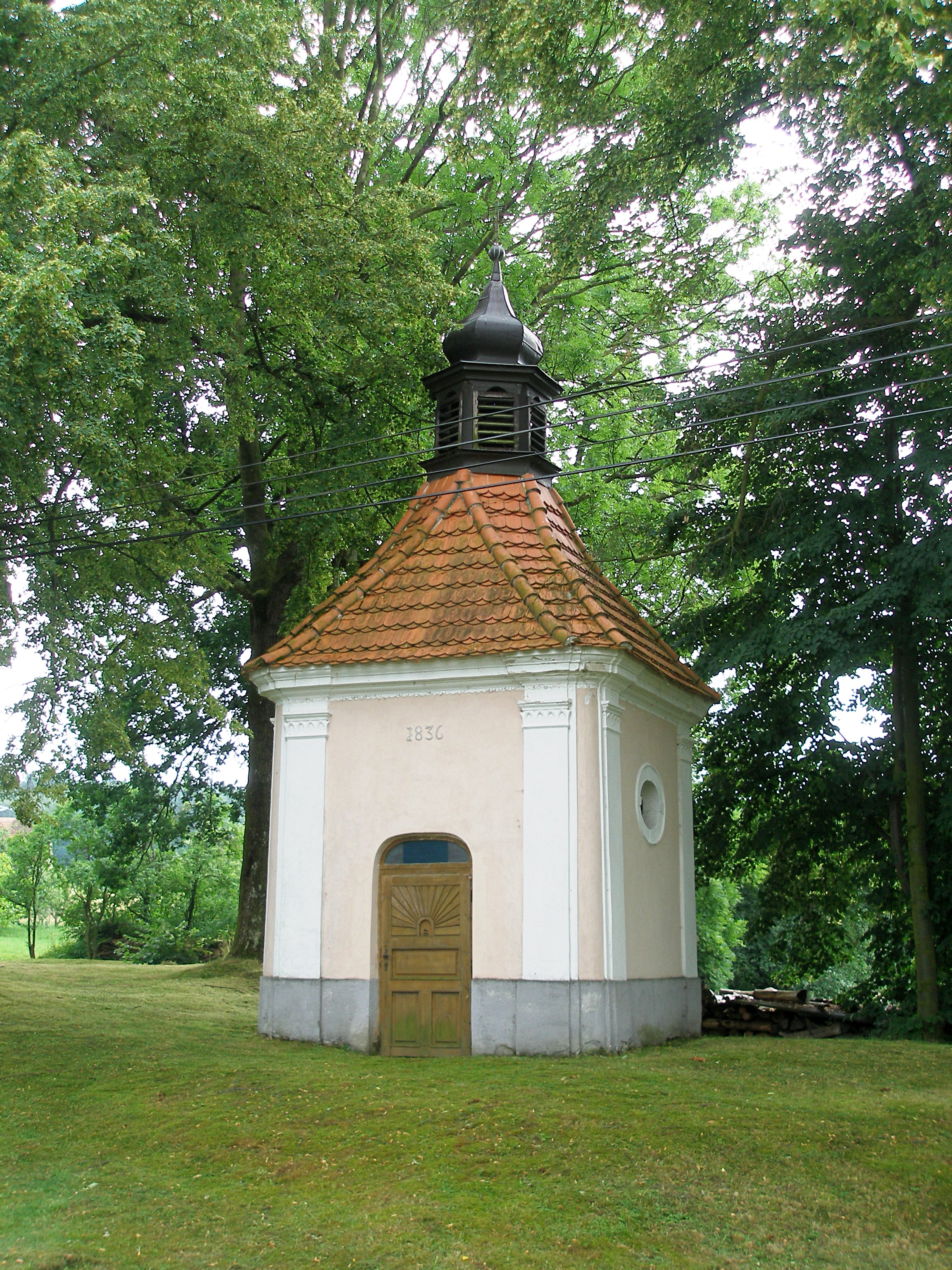 The chapel in Tuchonice